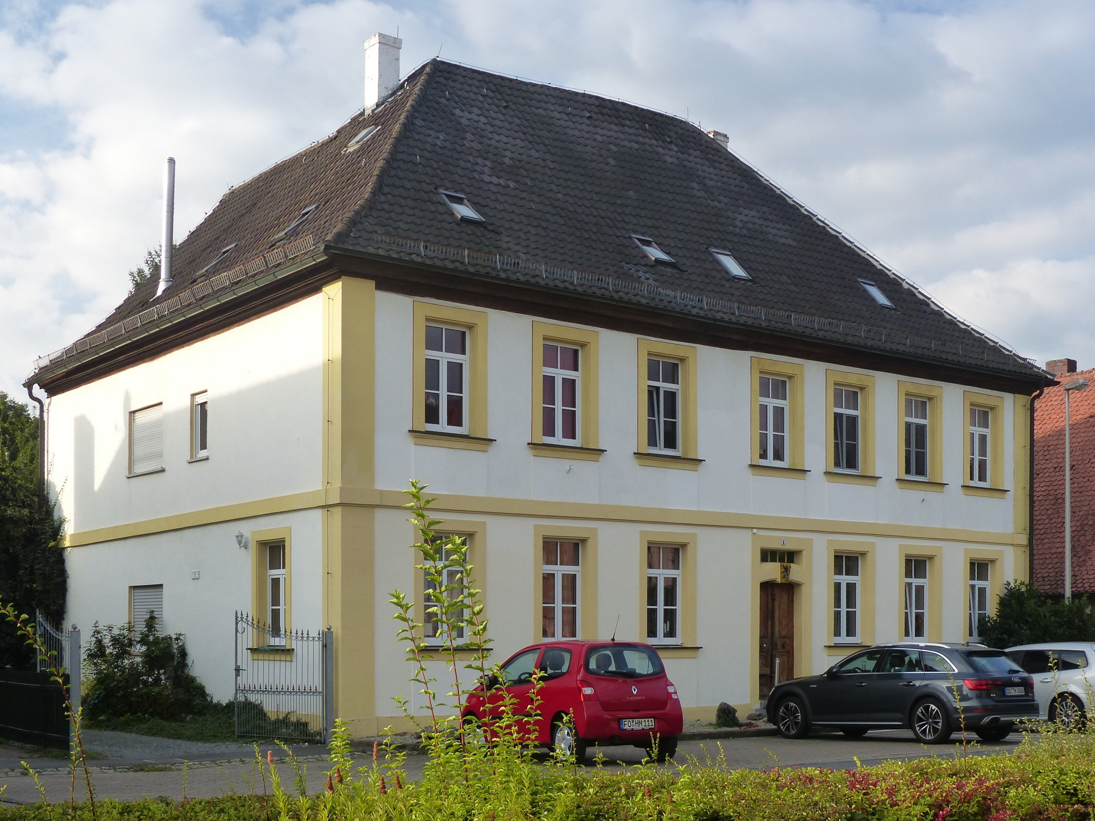 The former Amtshaus (official residence) of the Amt Eggolsheim, an administrative body of the Prince-Bishopric of Bamberg.